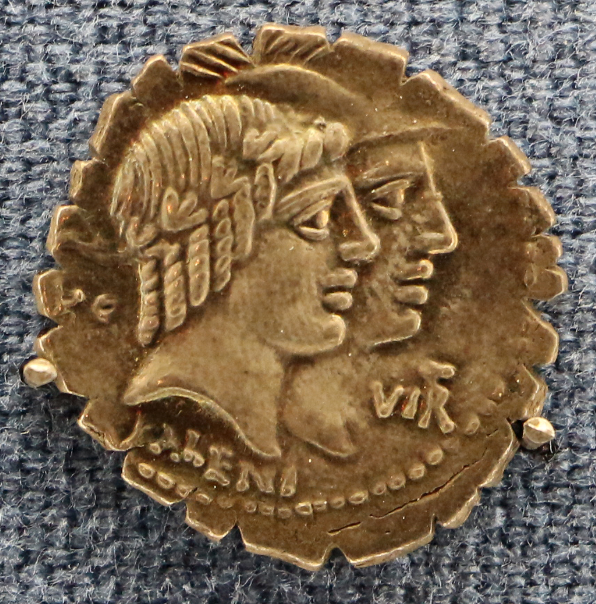 Ancient Roman coins in Palazzo Blu (Pisa)